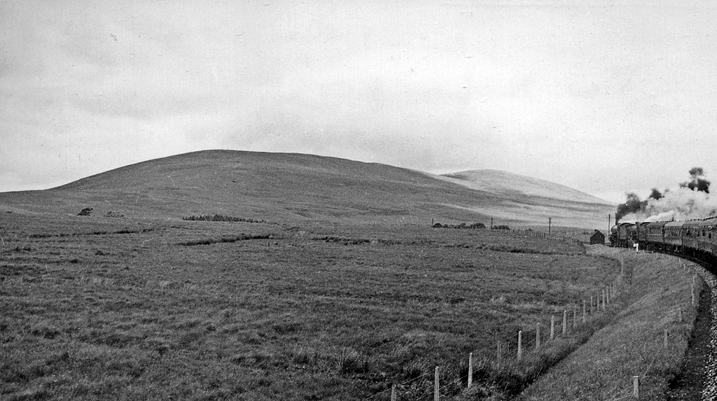 View at head of Liddesdale from Waverley Route train approaching Riccarton Junction. View NW, to Arnton Fell (1,329 ft.) and Blackwood Hill (1,463 ft.). We were about three miles from the summit of the 10-mile climb to Whitrope from Newcastleton on the ex-North British main line Carlisle - Edinburgh, which was savagely closed in January 1969 - cutting off most of the Borders Region from rail access. The train was a Rail Tour, headed by a couple of LNER B1 4-6-0s.